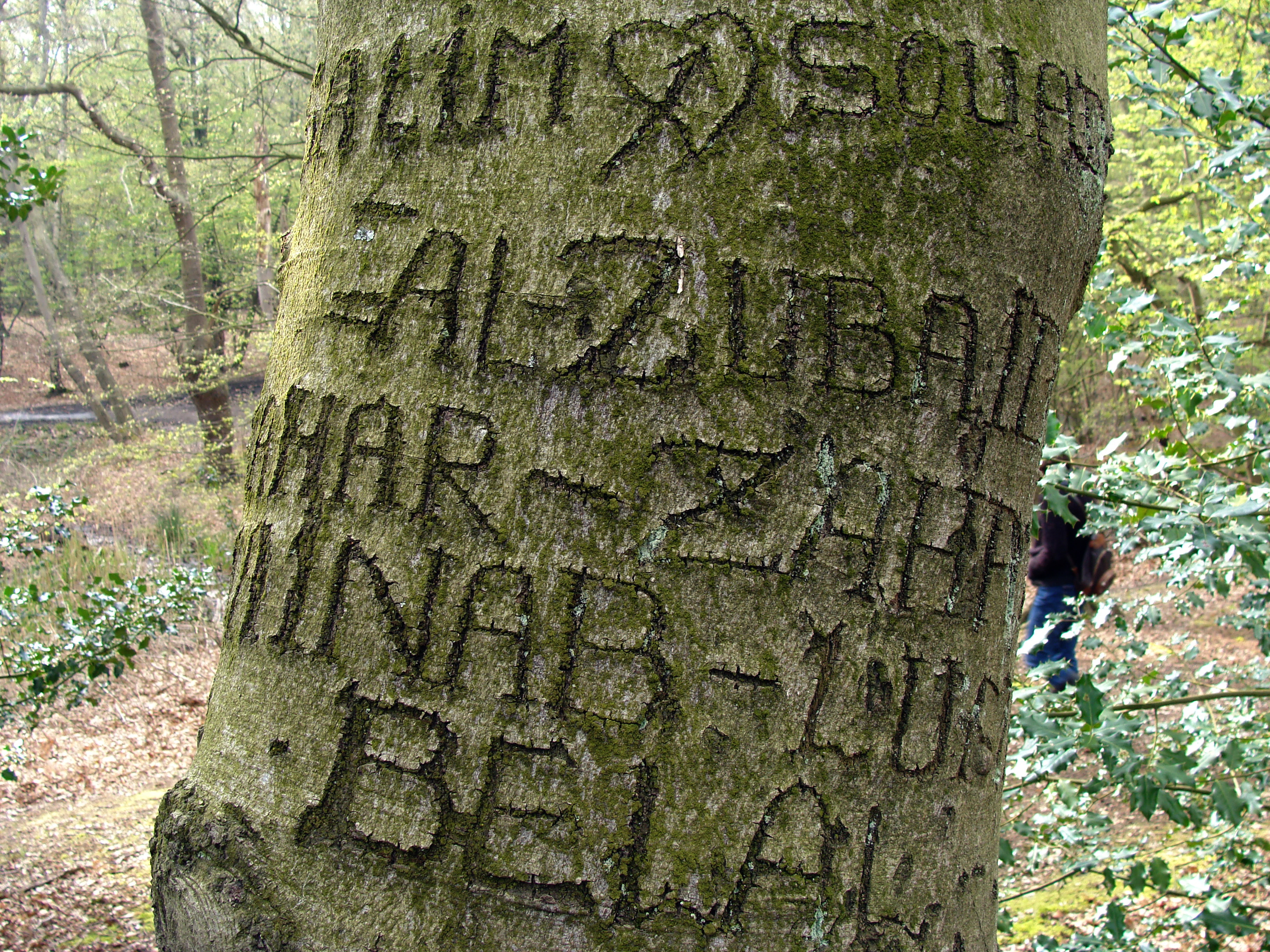 Carvings on tree trunk, Epping Forest